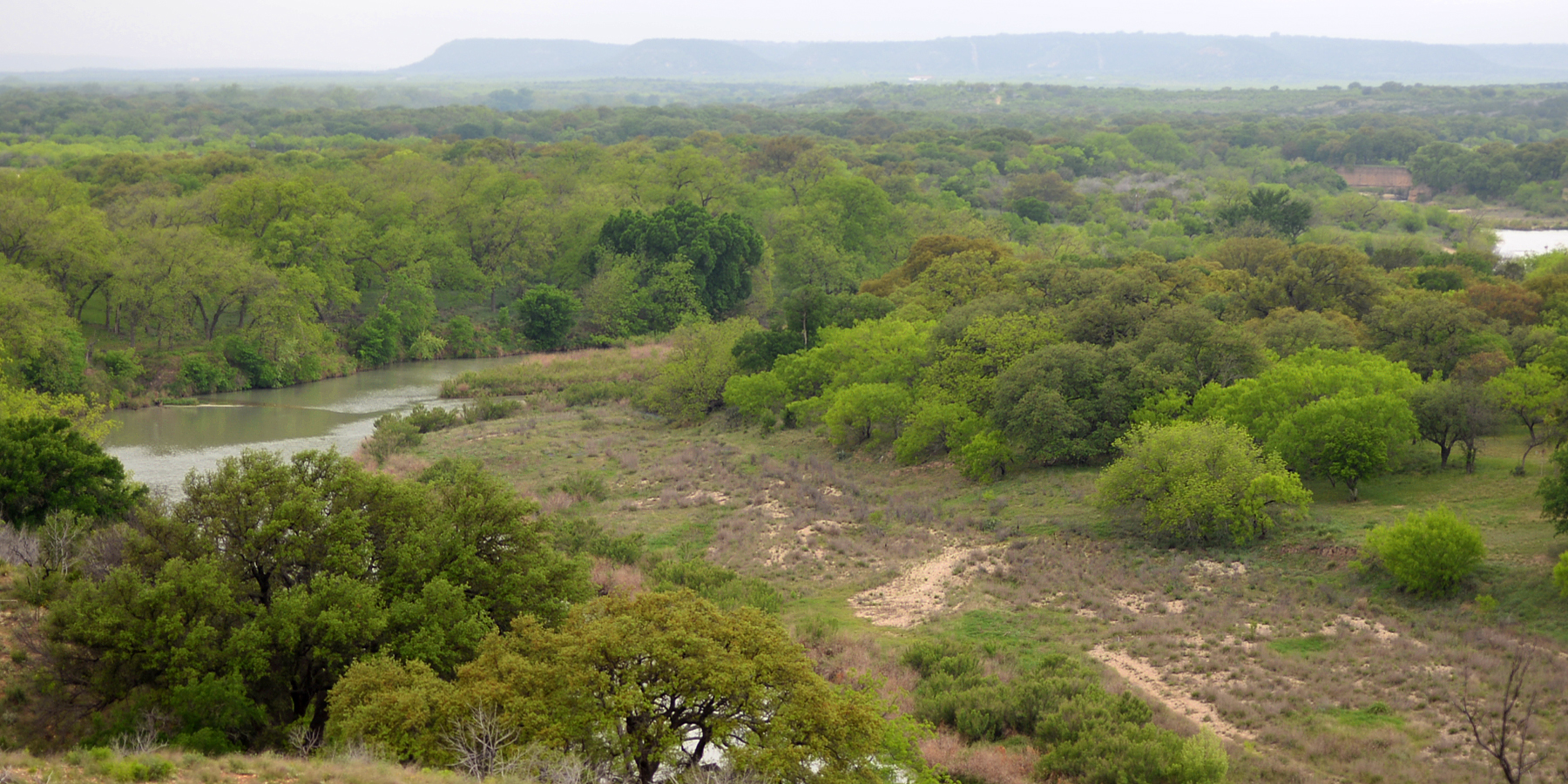 Llano River seen from County Road 320, Kimble County, Texas, USA. Photographed on 17 April 2015 by William L. Farr